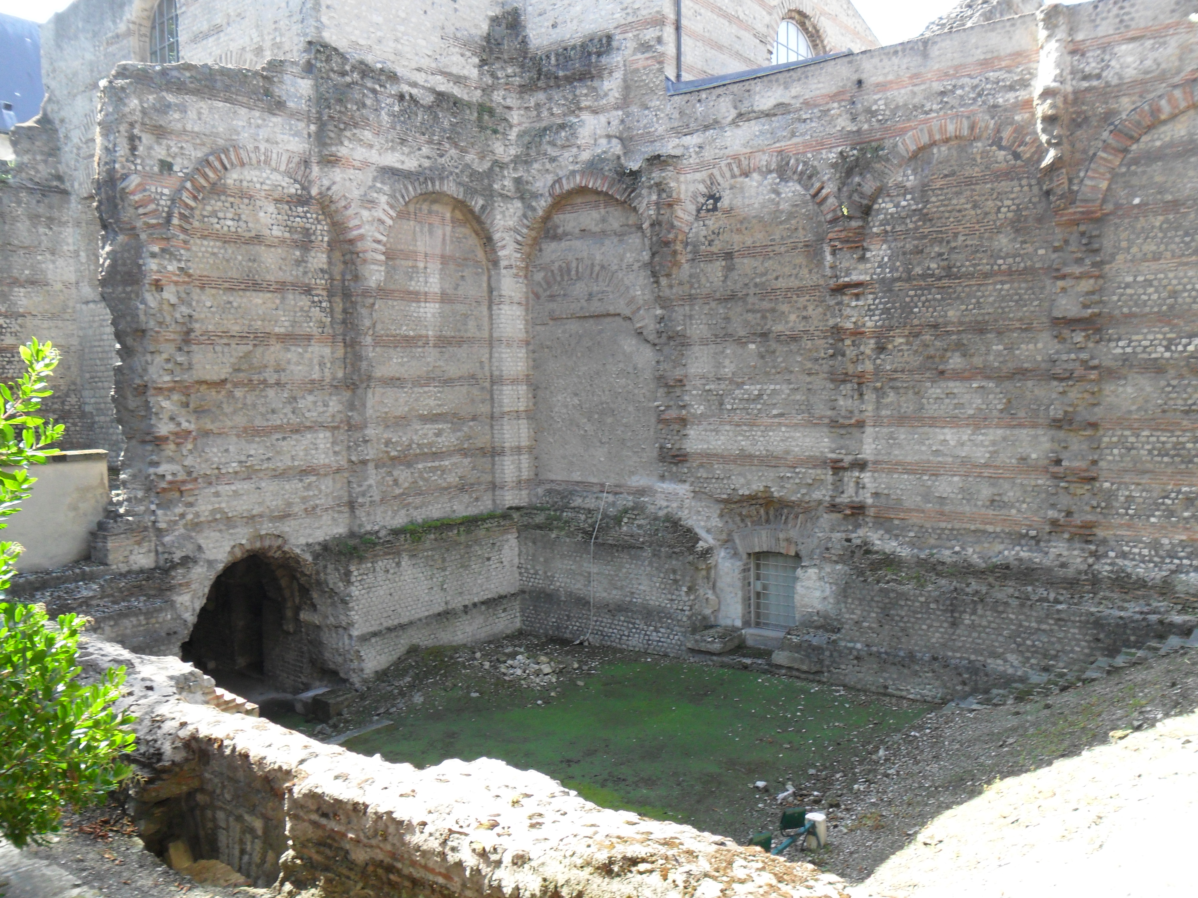 The Thermes de Cluny in Paris .